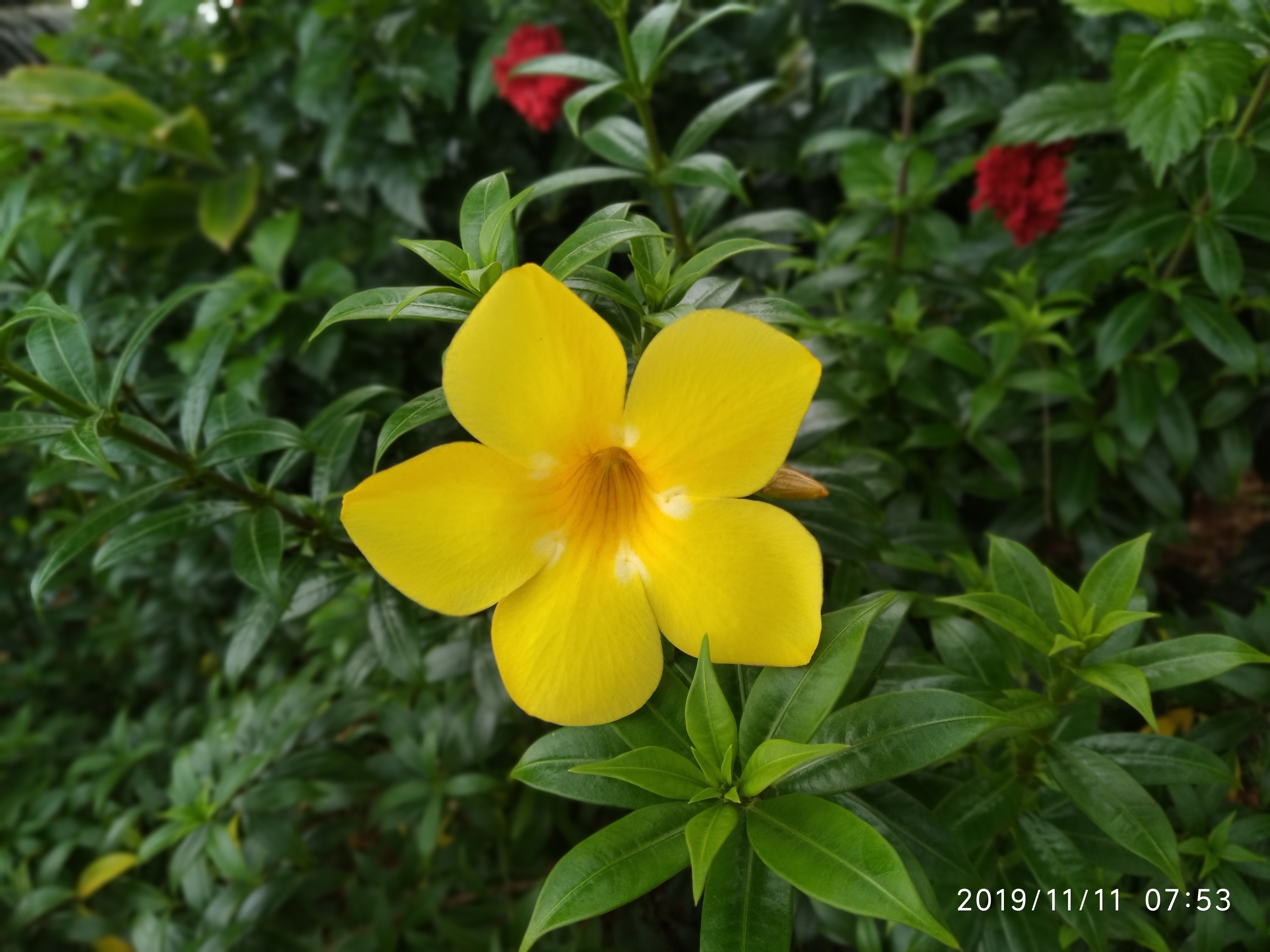 Allamanda cathartica, commonly called as golden trumpet flower . its a native of brazil. does not twine, nor has tendrils or aerial roots. Can be pruned into a shrub form. If not pruned it can sprawl to a height of 20 feet